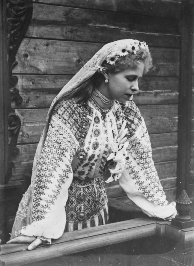 Accession Number: 1975:0112:0559 Maker: Ch. Chusseau-Flaviens Title: Princess Marie, Roumanie Date: ca. 1900-1919 Medium: negative, gelatin on glass Dimensions: 12 x 9 cm. George Eastman Museum Native nameGeorge Eastman House International Museum of Photography and FilmLocationRochester, United States of AmericaCoordinates43° 09′ 10″ N, 77° 34′ 49″ W Established1949Web page control : Q1507284 VIAF: 132694857 ISNI: 0000 0004 0459 1733 ULAN: 500276536 LCCN: n79086438 NLA: 36554246 WorldCat institution QS:P195,Q1507284 General information about the George Eastman House Photography Collection is available at . For information on obtaining reproductions go to: .